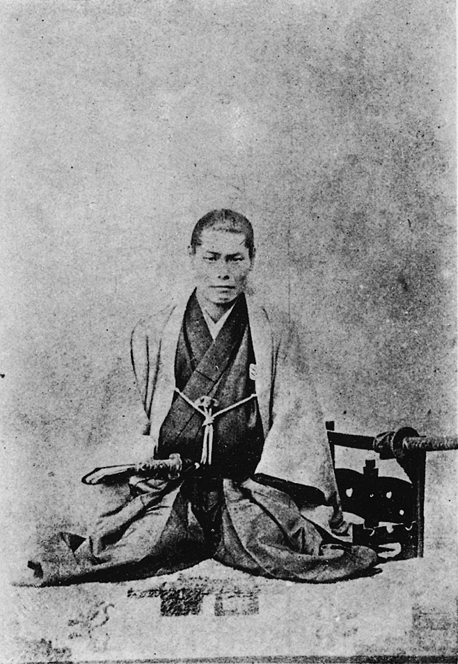 Portrait of Kondo Isami (近藤勇, 1834 – 1868)